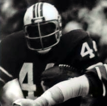 New England Patriots running back Don Calhoun pictured rushing the ball against the Denver Broncos.